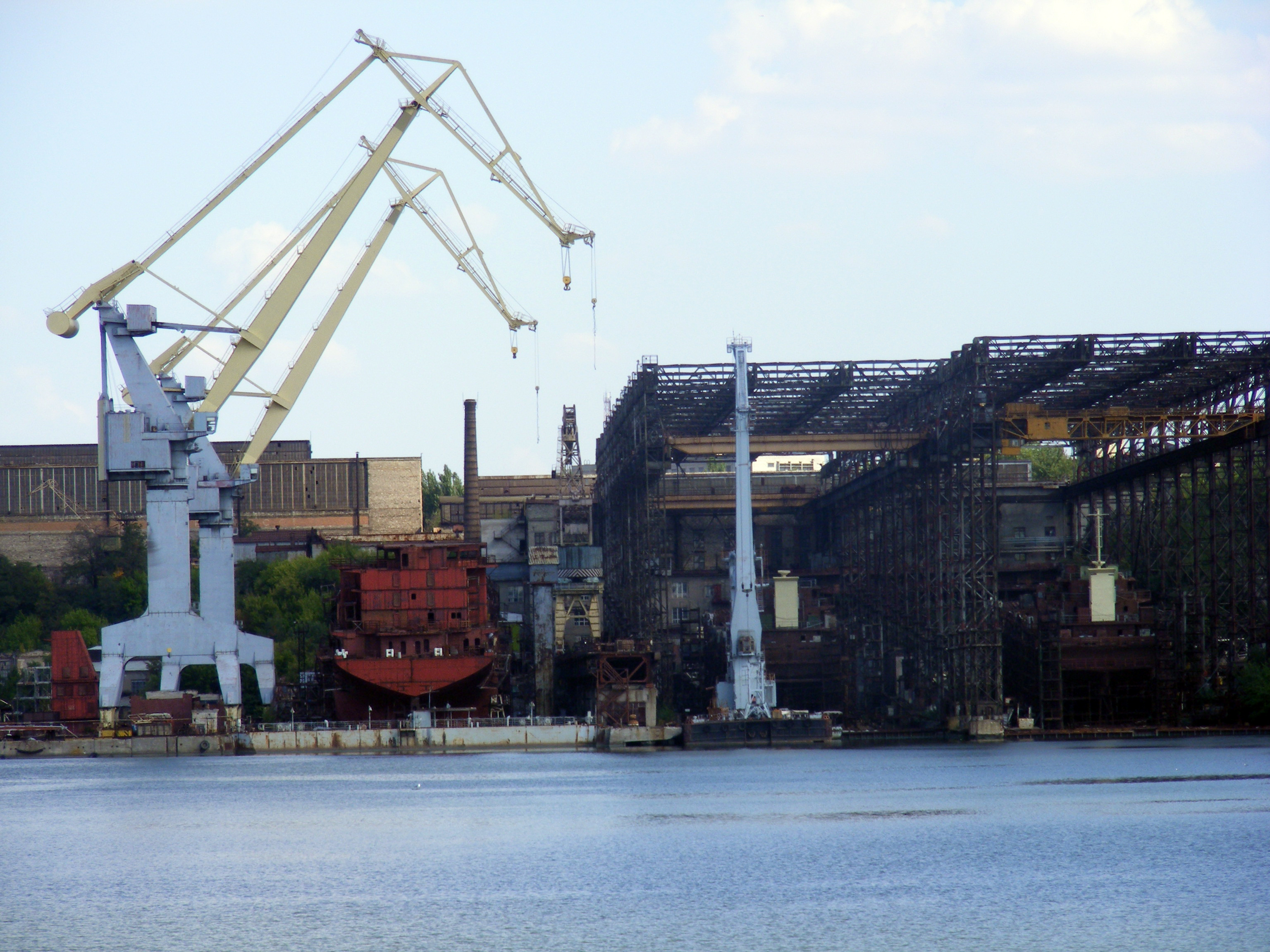 Drydock of Shipbuilding Factory name of 61 Communard